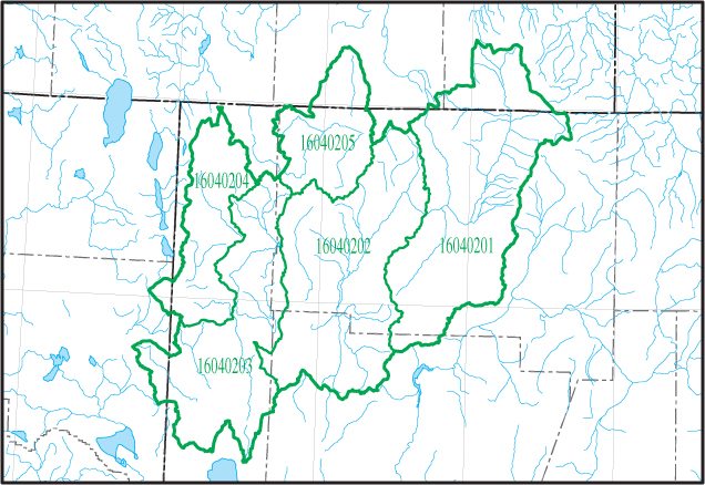 USGS watershed cataloging unit 160402, the Black Rock Desert including 5 subsidiary watersheds